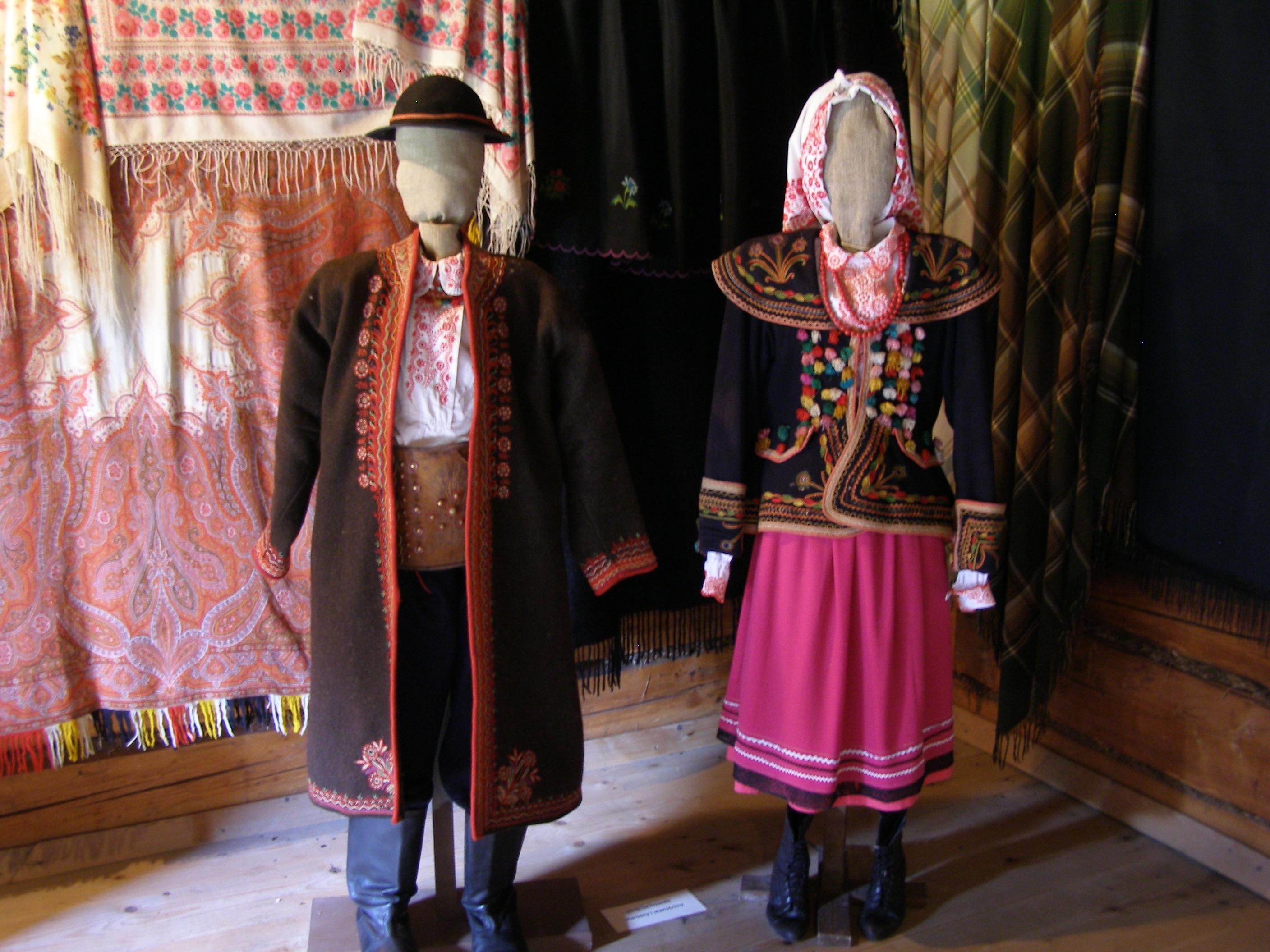 Szymbark - Skansen of the Polish Uplanders Countryside - traditional outfit of a starosta and his wife from the Uplands